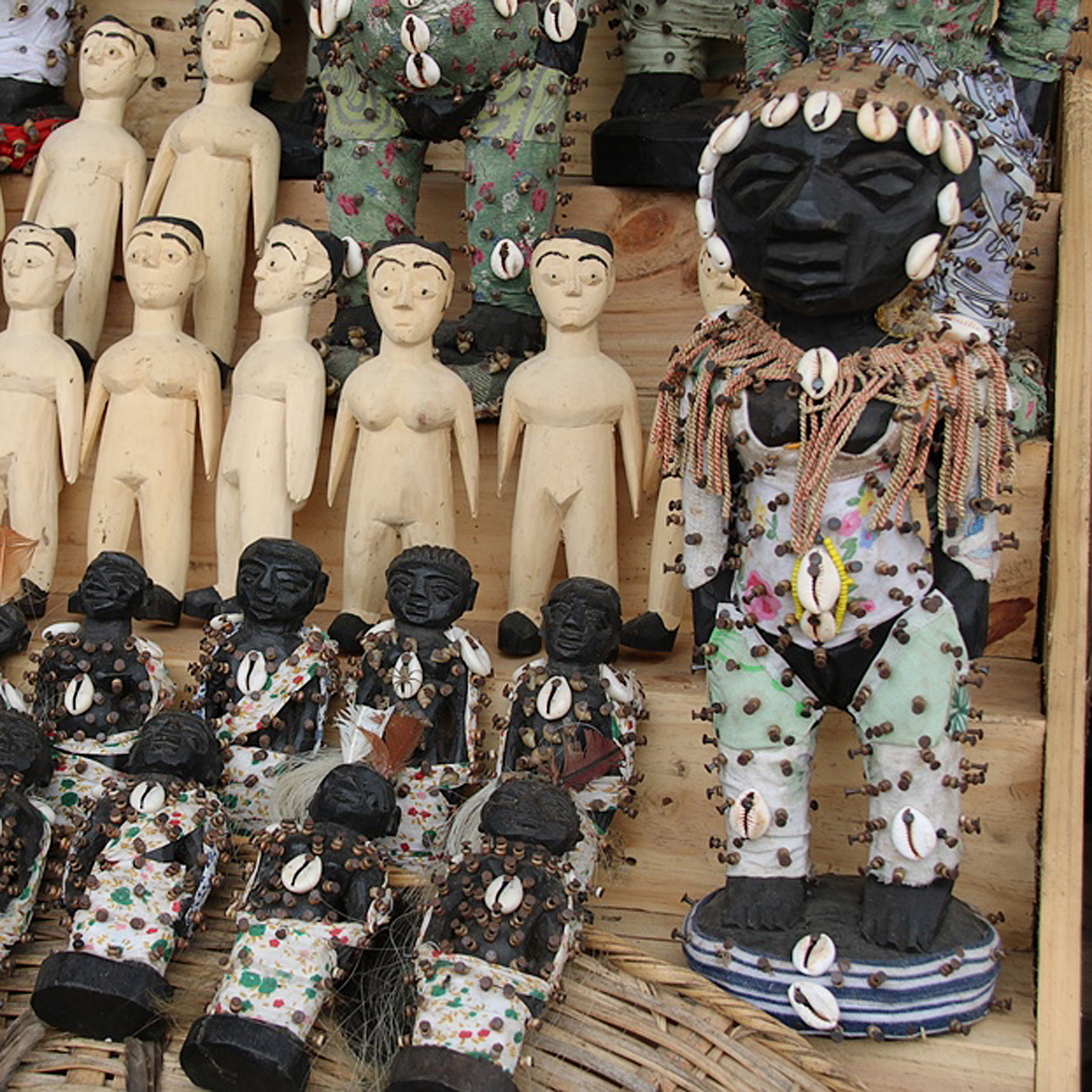 The Akodessawa Fetish Market in Lomé, Togo, West Africa is one of the biggest markets for voodoo paraphernalia.